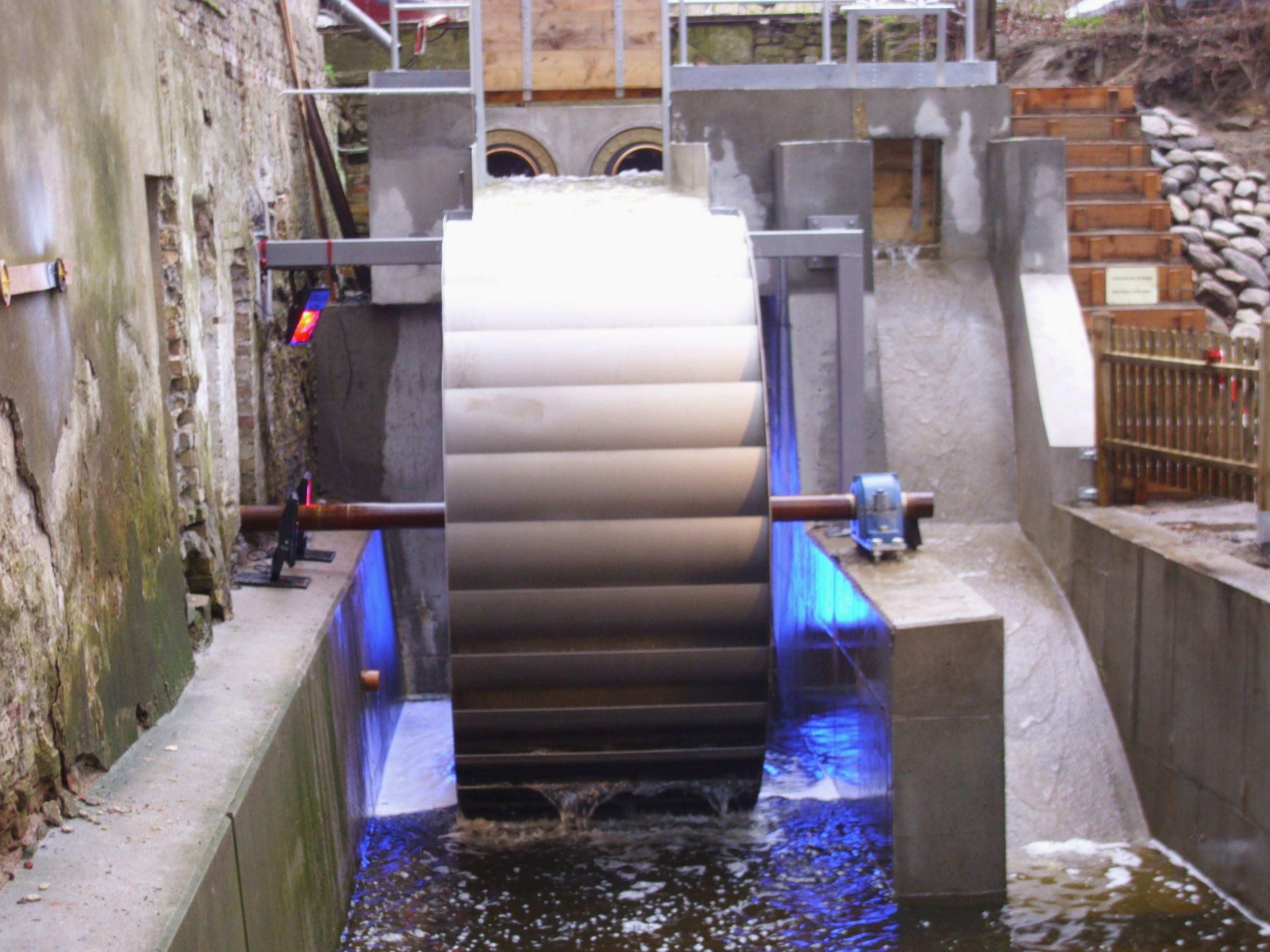 New mill wheel of the historical water mill "Mönchmühle" on 7.04.2012